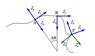 Versores tangencial e normal em alguns pontos da trajetória.